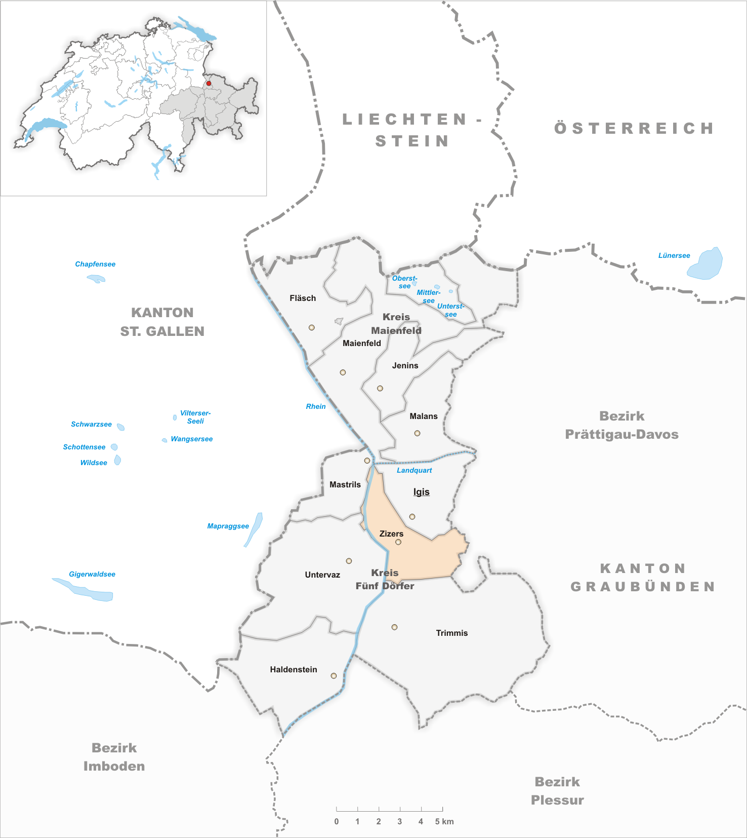 Municipality Zizers